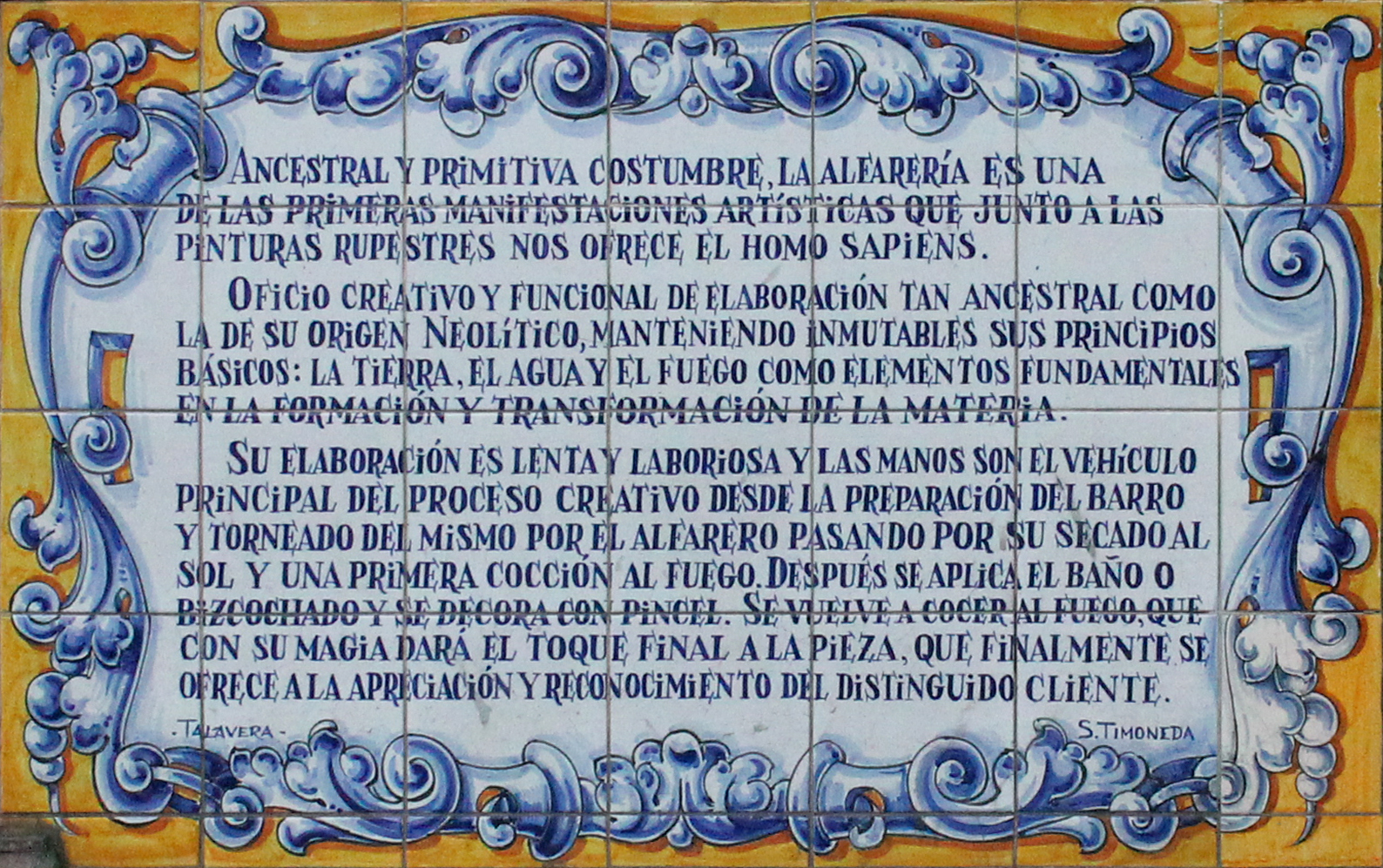 An ornamental panel of tiles.